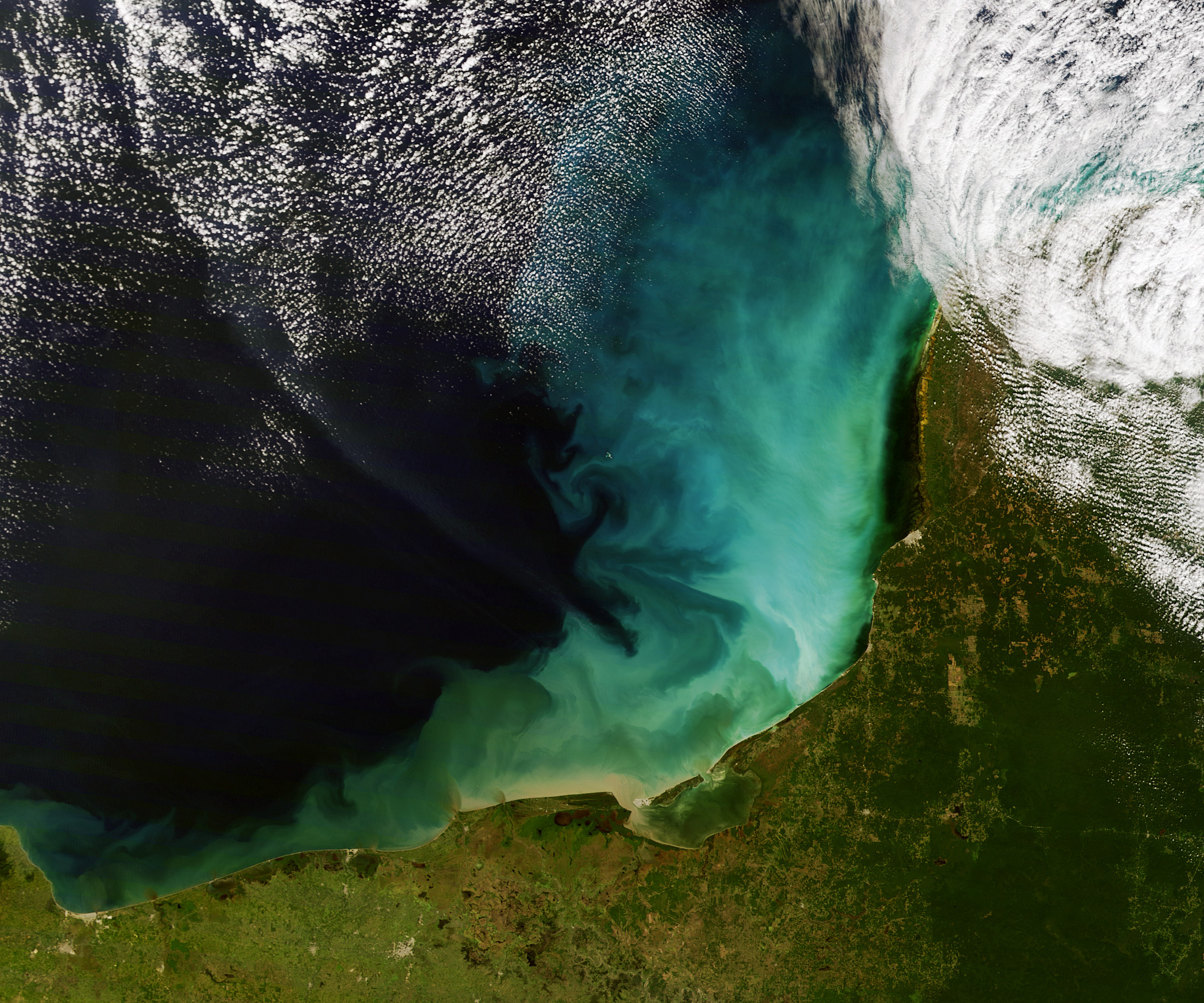 A burst of colour lights the shallow waters of the Gulf of Mexico off the Yucatan Peninsula. The swirls of tan, green, blue, and white are most likely sediment in the water. The sediment scatters light, giving the water its color. The sediment comes from two sources: the land and the sea floor. Some of the color may also come from phytoplankton, tiny plant-like organisms that live in the sun-lit surface waters of the ocean. Near the shore, the water is tan where rivers carry dirt from land to the ocean. As the sediment disperses, the water fades to green and then black. To the north (top), the water is more blue and white than tan and green. In these regions, the sediment has likely come from the sea floor. Made up of chalky white calcium carbonate from shell-building marine life like coral, sea floor sediment gives the water a white or bright blue colour. The sediment was probably brought to the surface in shallow waters by strong waves. A few days before the image was taken, strong winds churned the Gulf. The blue-green cloud in this image roughly matches the extent of the shallow continental shelf west of the peninsula.